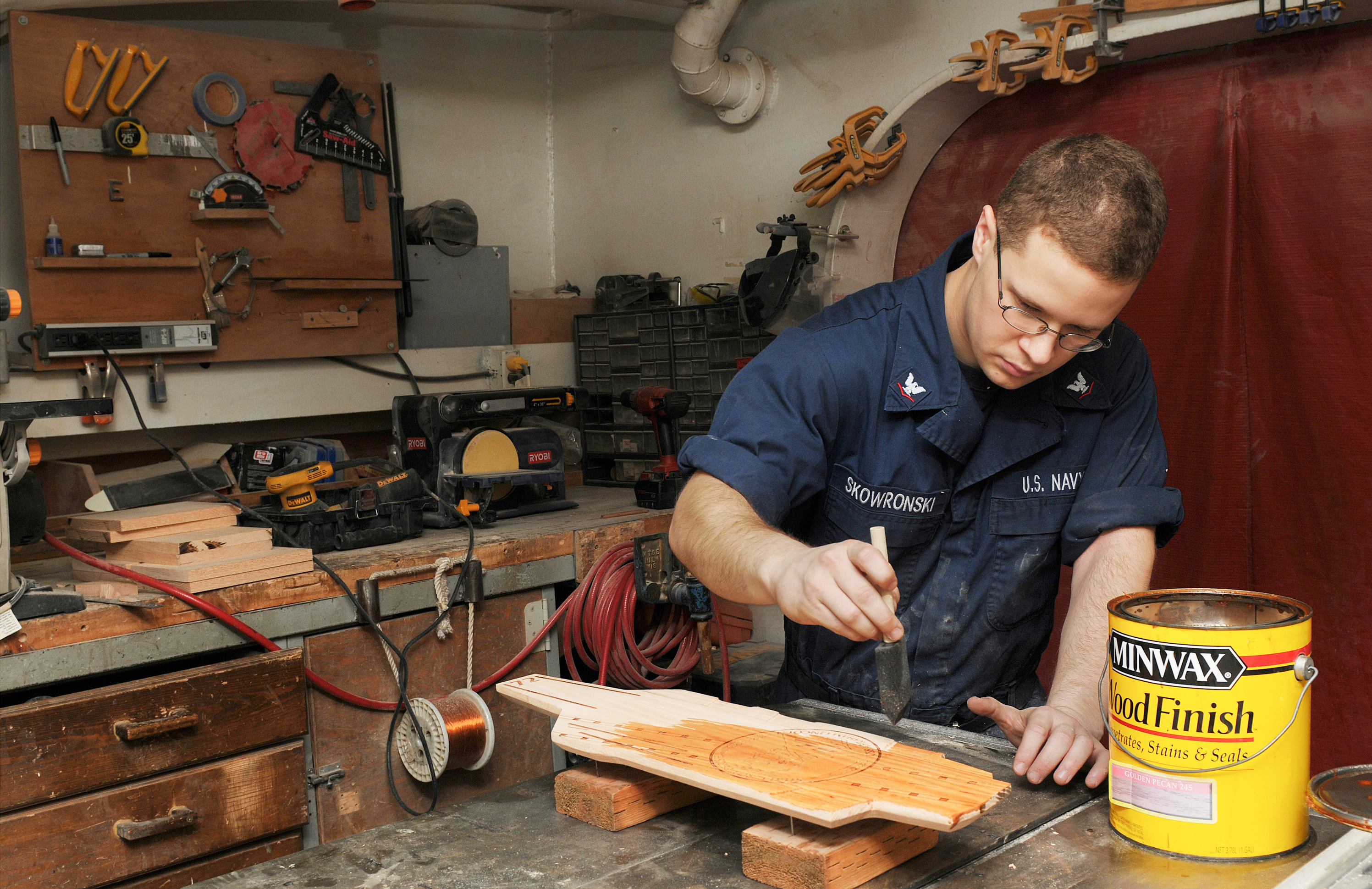 ARABIAN SEA (March 8, 2012) Hull Maintenance Technician 3rd Class Christopher Skowronski adds wood stain to a plaque in the wood shop of the Nimitz-class aircraft carrier USS Abraham Lincoln (CVN 72). Abraham Lincoln is deployed to the U.S. 5th Fleet area of responsibility conducting maritime security operations, theater security cooperation efforts and support missions as part of Operation Enduring Freedom. (U.S. Navy photo by Mass Communication Specialist Seaman Apprentice Joshua E. Walters/Released) 120308-N-NB694-046